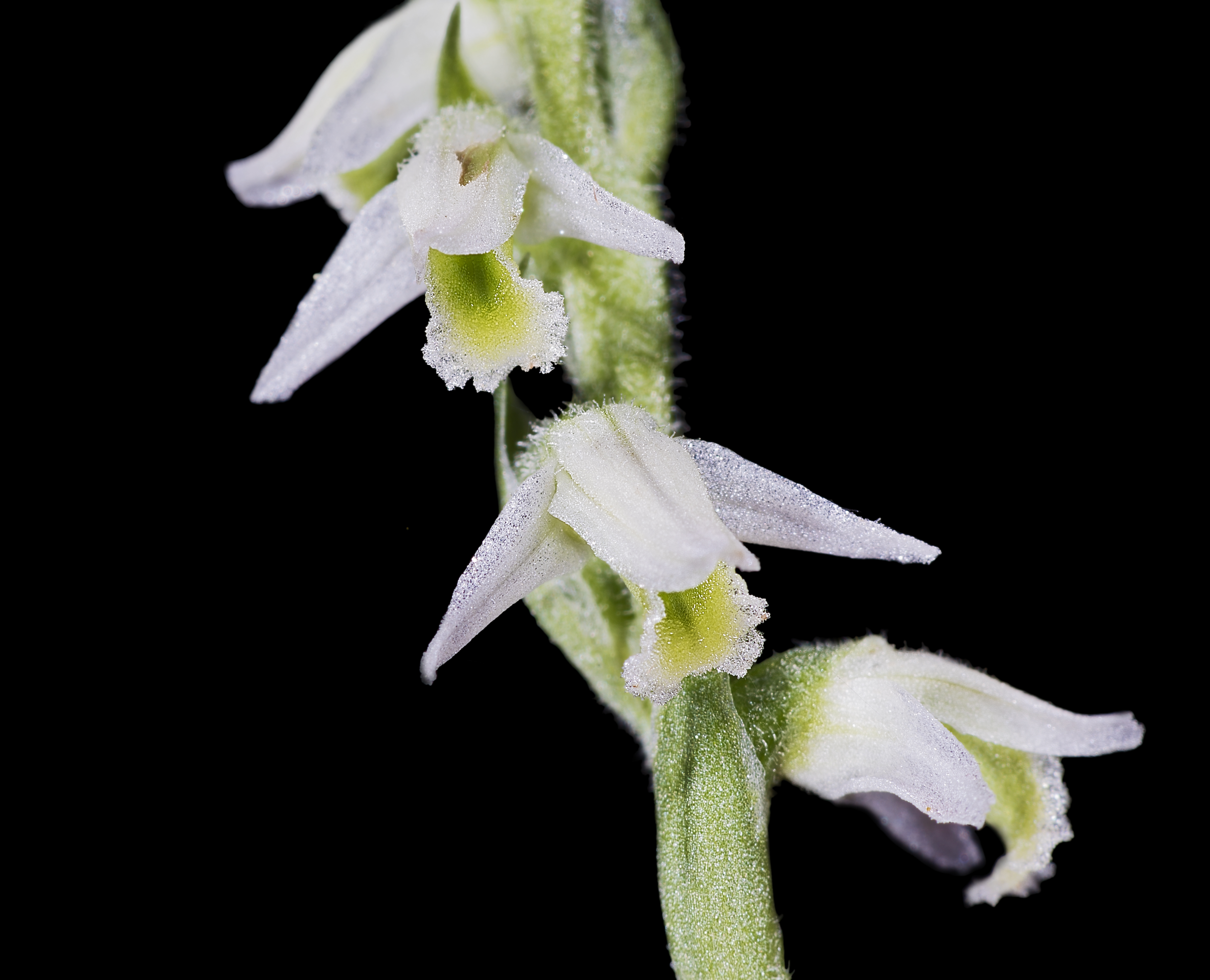 Autumn Lady's-tresses. Size of a flower 6 mm.